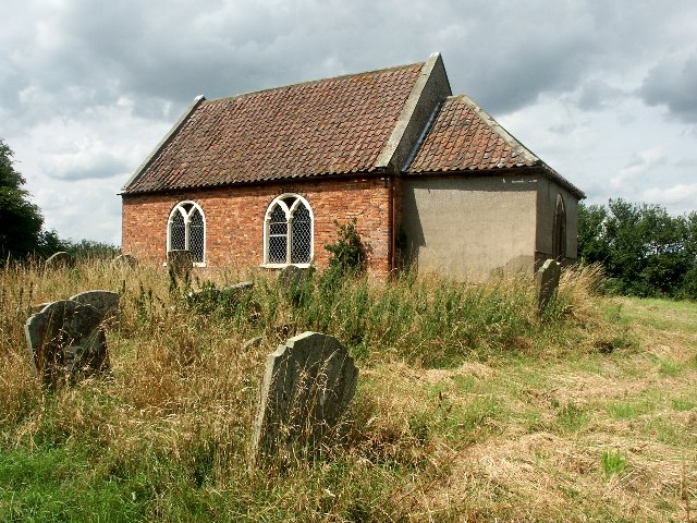 The church of All Saints, Wilksby. This remote Georgian church was built about 1790 and had the chancel added in 1802. The congregation travel from other parishes that have lost their churches, such as Claxby Pluckacre, Moorby and Wood Enderby. The church contains a mediaeval font.